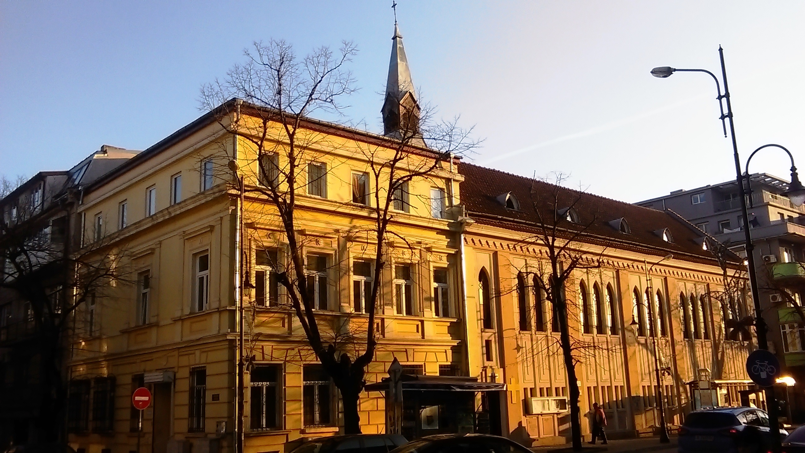 Сградата на католически колеж и параклис Св. Архангел Михаил във Варна.